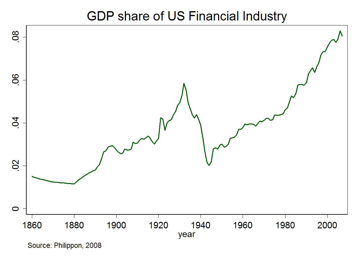 Share of financial sector in US gross domestic product 1860 to 2006